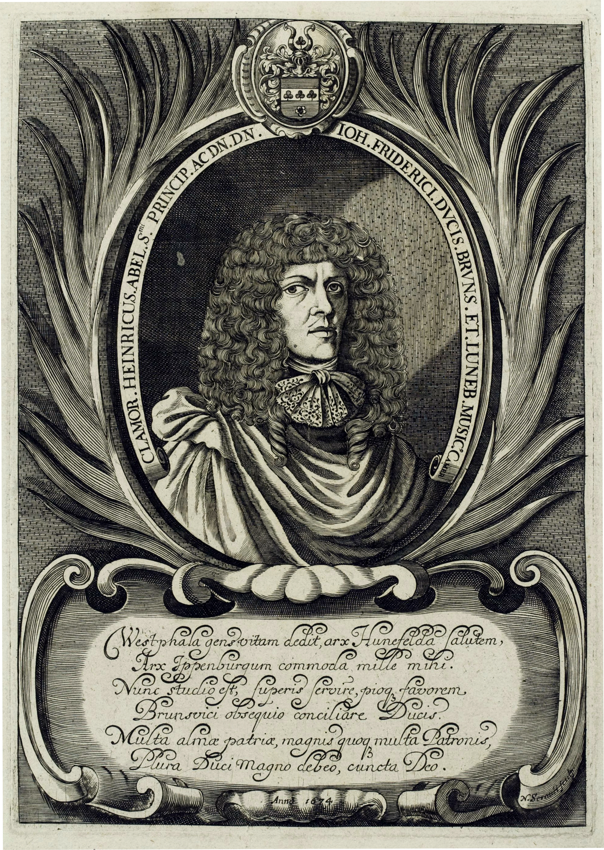 Copper engraving with the portrait of the componist and musician Clamor Heinrich Abel (1634–1696) made by Noel Serault